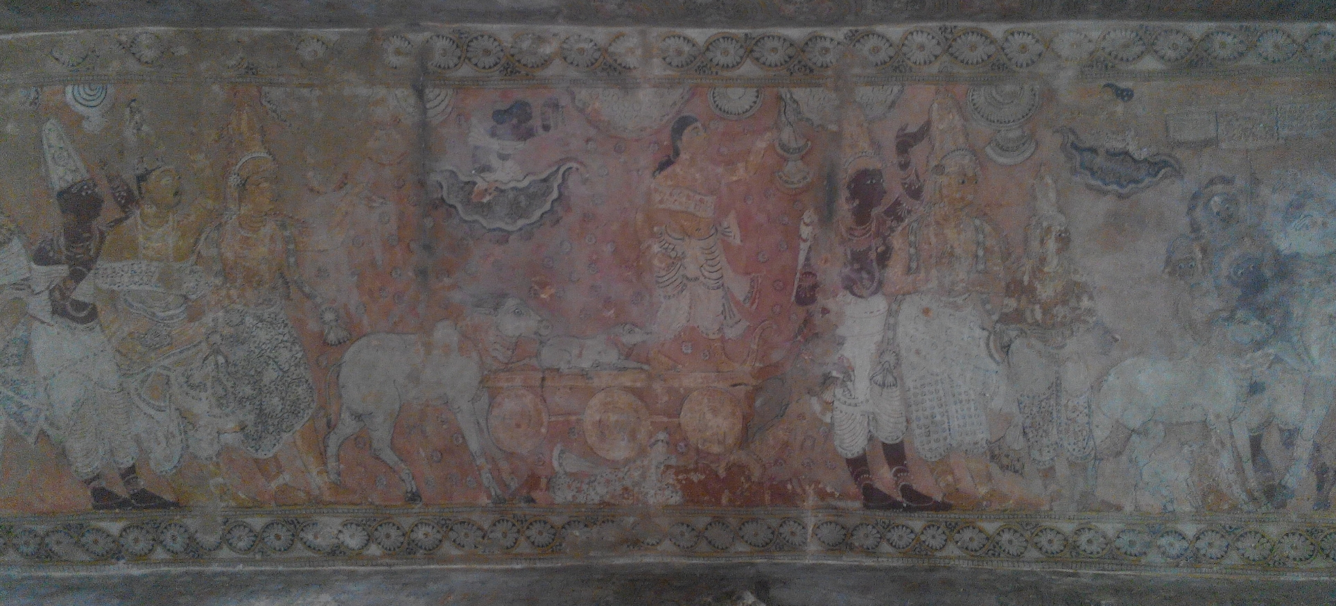 இது லேபாட்சி வீரபத்திரர் கோயில் விதானத்தில் உள்ள மனு நீதி சோழனின் வாழ்க்கையைக் குறிப்பிடும் ஓவியங்களில் ஒன்று. இந்த ஓவியமானது, கன்றை தேரேற்றிக் கொன்றுவிட்ட சோழ இளவரசன் நீதிவிடங்கனின் செயலால் துன்புற்ற பசுவுக்கு நீதி வழங்க தேர்க்காலில் இட்டு இளவரசன் கொல்லப்படுவதை சித்தரிக்கிறது